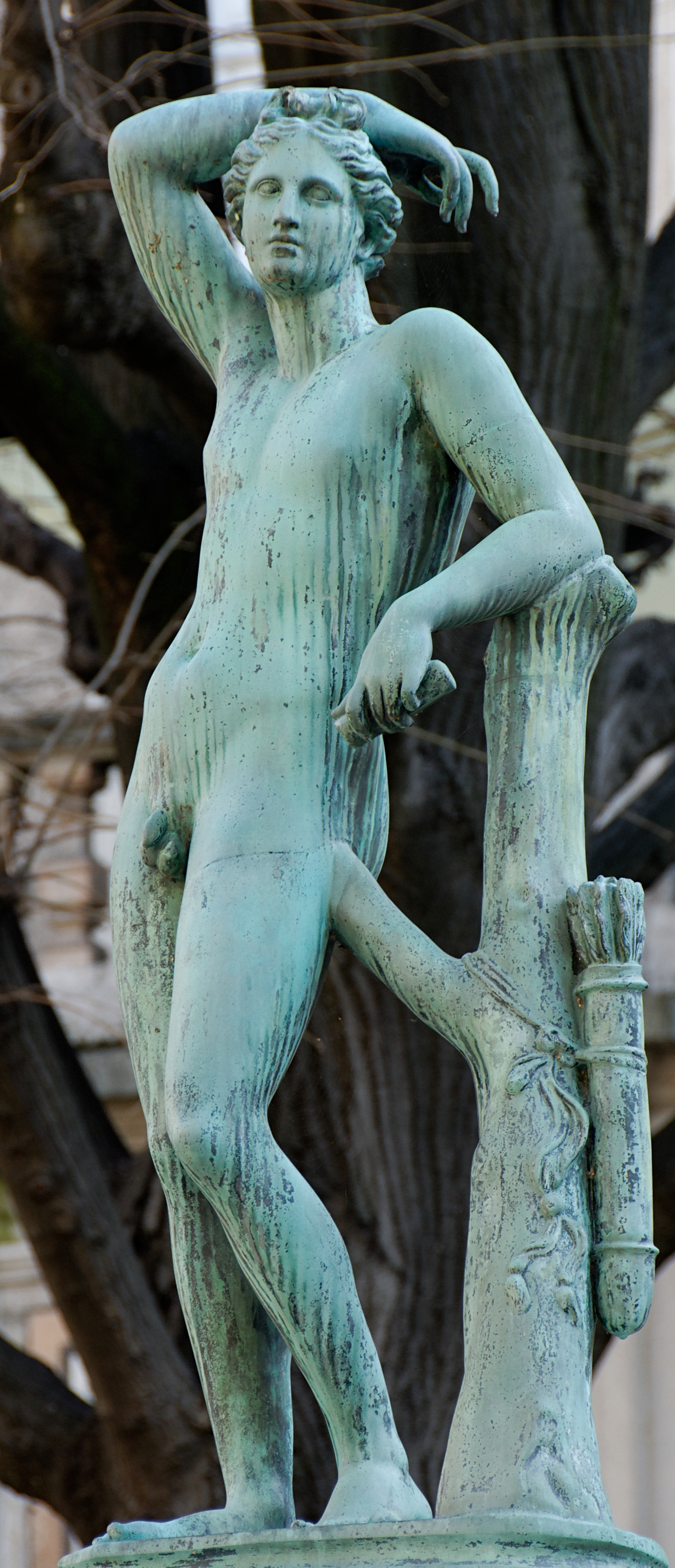 Apollo of the Apollino type. Bronze copy after the antique statuette now in the Galleria degli Uffizi, 1st–2nd centuries CE.